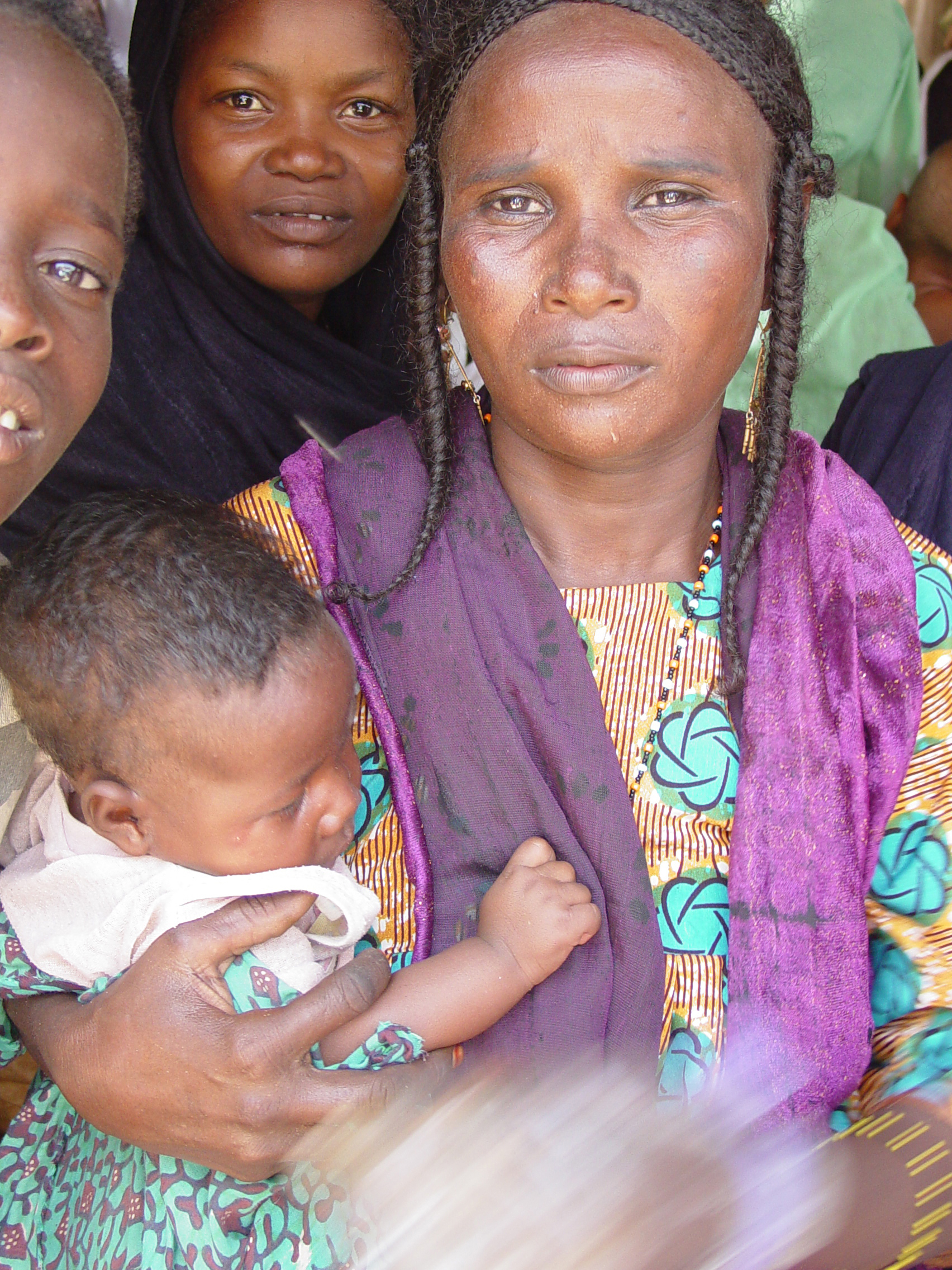 Young Touareg woman with her baby in Akoubounou village, Abalak Department, Niger, August 21, 2005. At Akoubounou, a semi-nomadic and pastoralist village of the Touareg ethnic group, USAID met with the village mayor and court of Touareg tribal chiefs, who represent approximately 25,000 semi-nomadic and nomadic people.